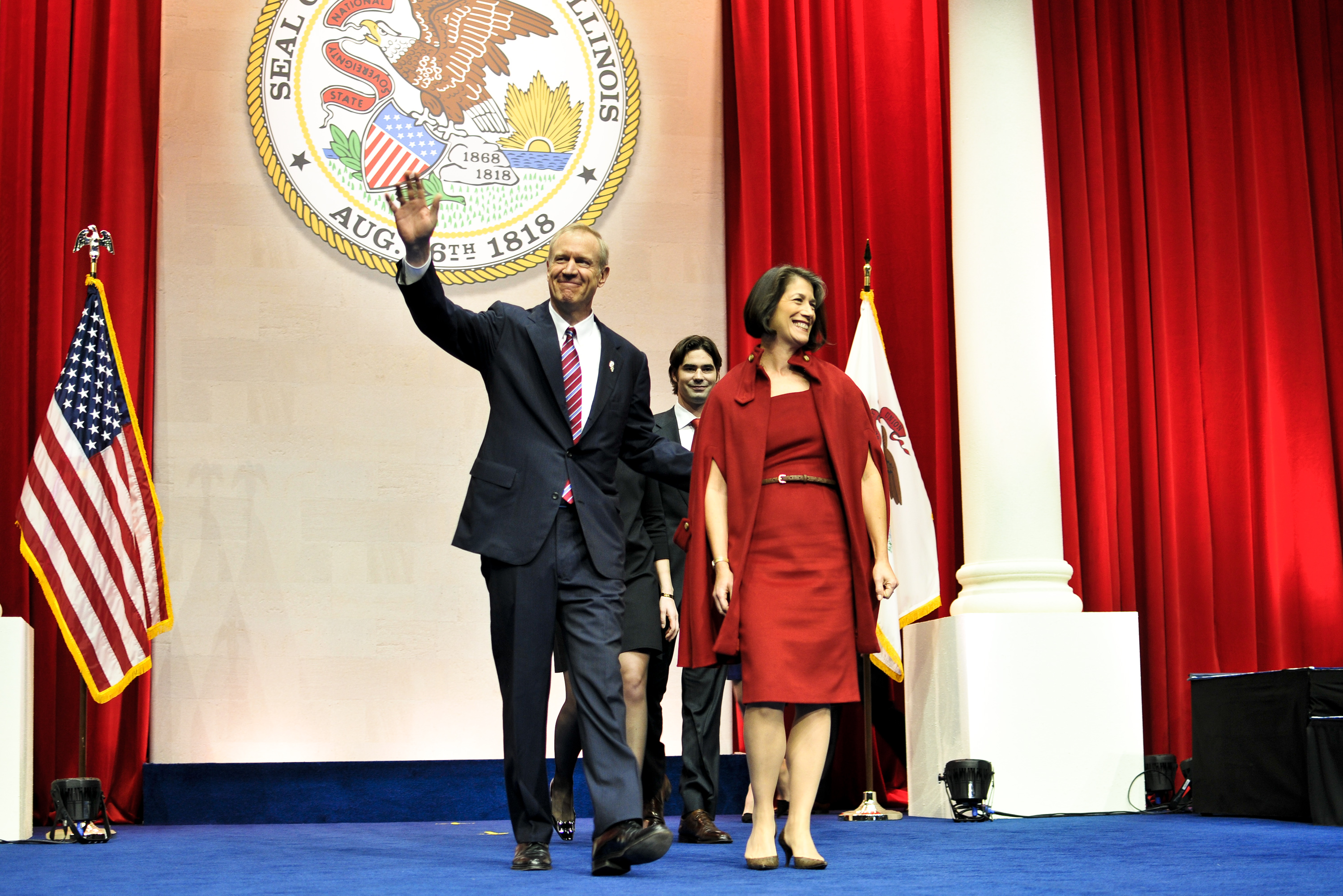 Bruce V. Rauner, governor-elect of Illinois, waves to the audience during his introduction at his inauguration ceremony in Springfield, Ill., Jan. 12, 2015. As Illinois' governor, Rauner will serve as the commander in chief for the Soldiers and Airmen of the Illinois National Guard while they are not under federal activation. (U.S. Air National Guard photo by Staff Sgt. Lealan Buehrer/Released)